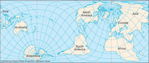 a Cylindrical Equal-Area Projection Oblique Map of the World